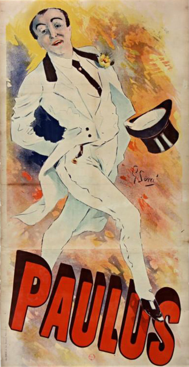 Poster of French singer Paulus designed by Georges Goursat in 1891